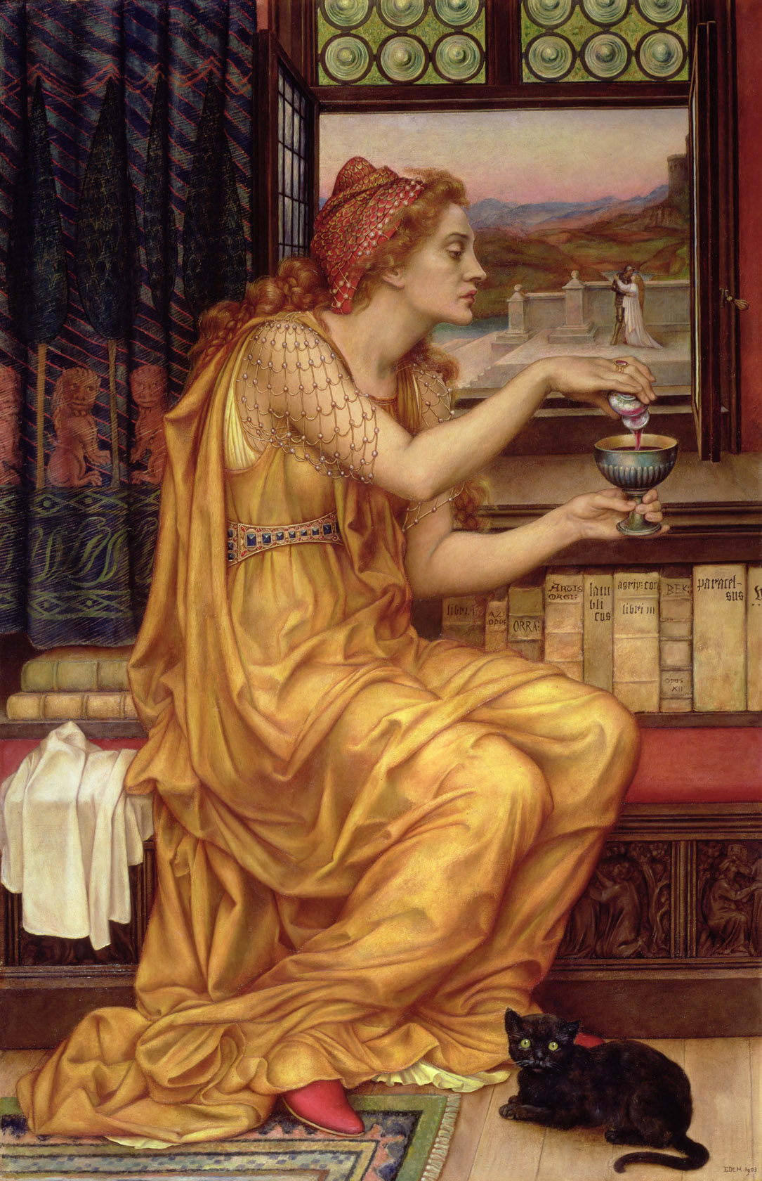 The painting The Love Potion